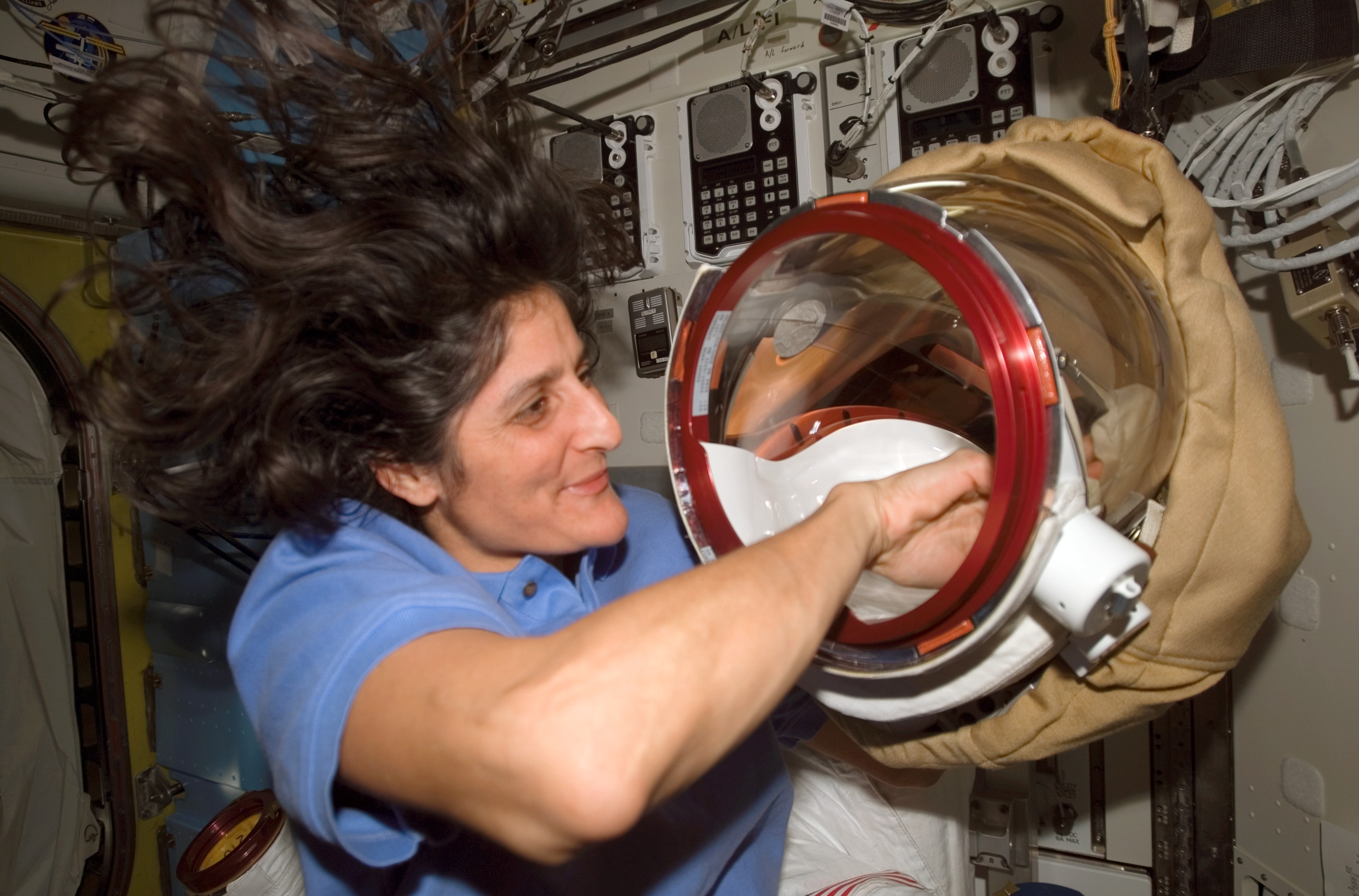 ISS014-E-13499 --- Astronaut Sunita L. Williams, Expedition 14 flight engineer, works with the helmet of her spacesuit in the Quest Airlock of the International Space Station as she prepares for the final of three sessions of extravehicular activity in nine days